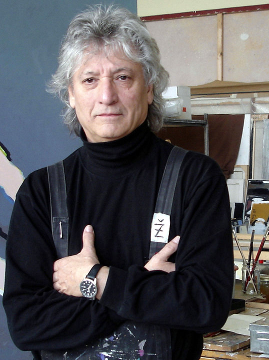 Zarko Radic ZARA in the studio